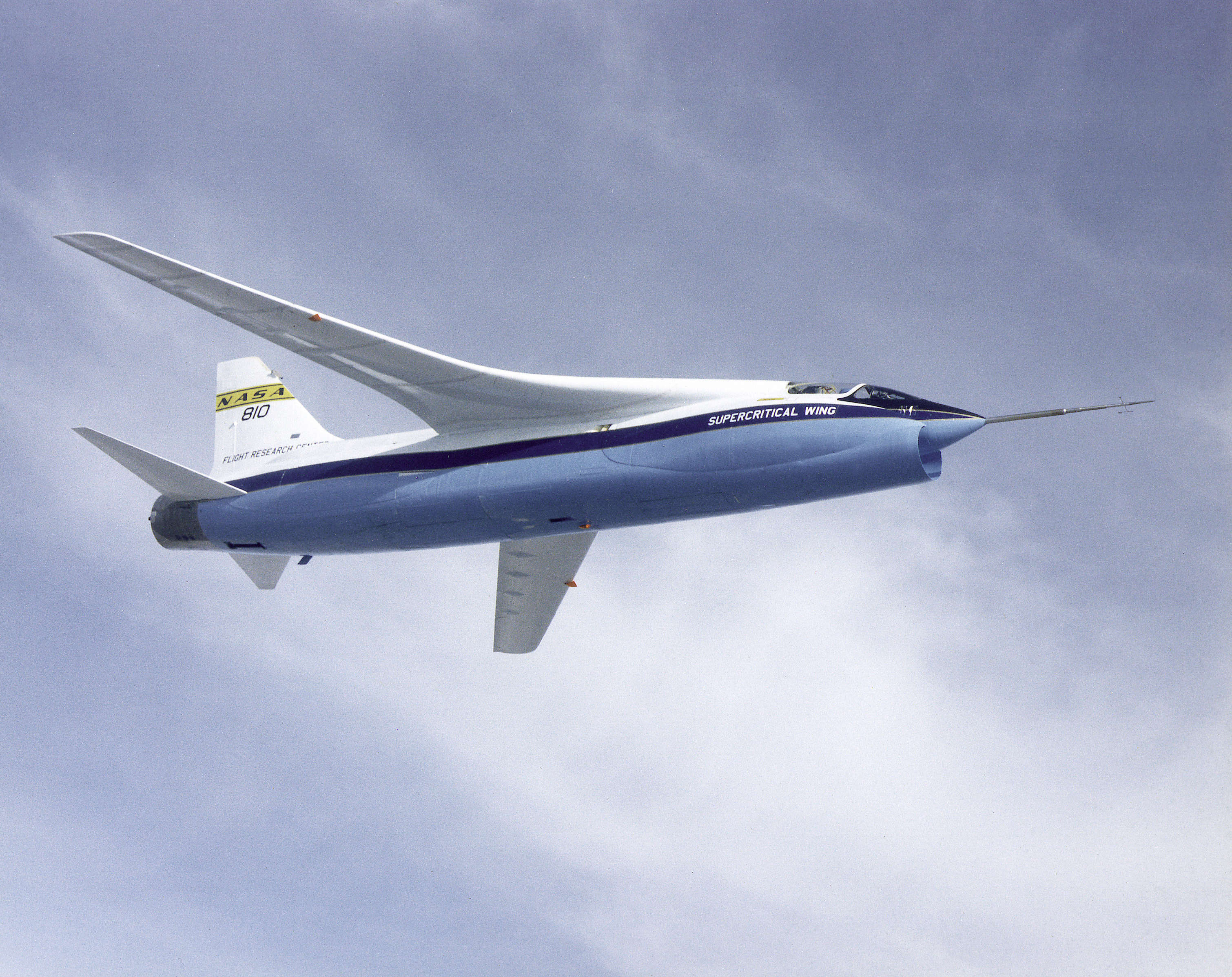 A Vought F-8A Crusader was selected by NASA as the testbed aircraft (designated TF-8A) to install an experimental Supercritical Wing in place of the conventional wing. The unique design of the Supercritical Wing (SCW) reduces the effect of shock waves on the upper surface near Mach 1, which in turn reduces drag. The F-8 Supercritical Wing (SCW) project flew from 1970 to 1973. Dryden engineer John McTigue was the first SCW program manager and Tom McMurtry was the lead project pilot. The first SCW flight took place on 9 March 1971. The last flight of the Supercritical wing was on 23 May 1973, with Ron Gerdes at the controls. Original wingspan of the F-8 was 35 feet, 2 inches while the wingspan with the supercritical wing was 43 feet, 1 inch. F-8 aircraft were powered by Pratt & Whitney J57 turbojet engines. The TF-8A Crusader was made available to the NASA Flight Research Center by the U.S. Navy. F-8 jet aircraft were built, originally, by LTV Aerospace, Dallas, Texas. Rockwell International’s North American Aircraft Division received a $1.8 million contract to fabricate the supercritical wing, which was delivered to NASA in December 1969.